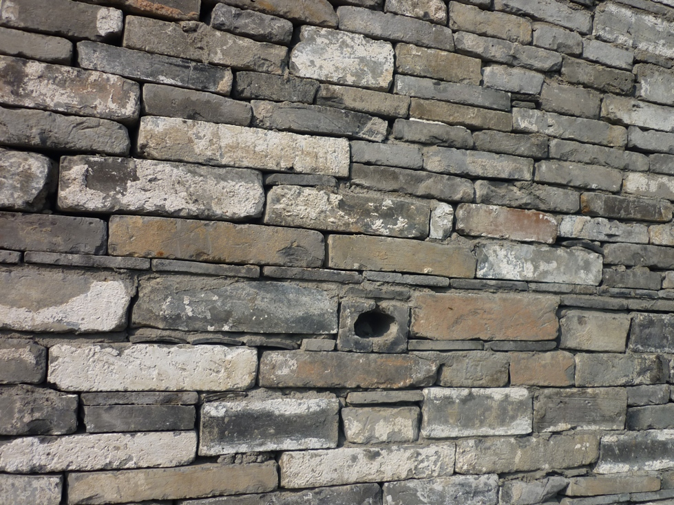 Special wall for Ningbo Museum, Zhejiang, China